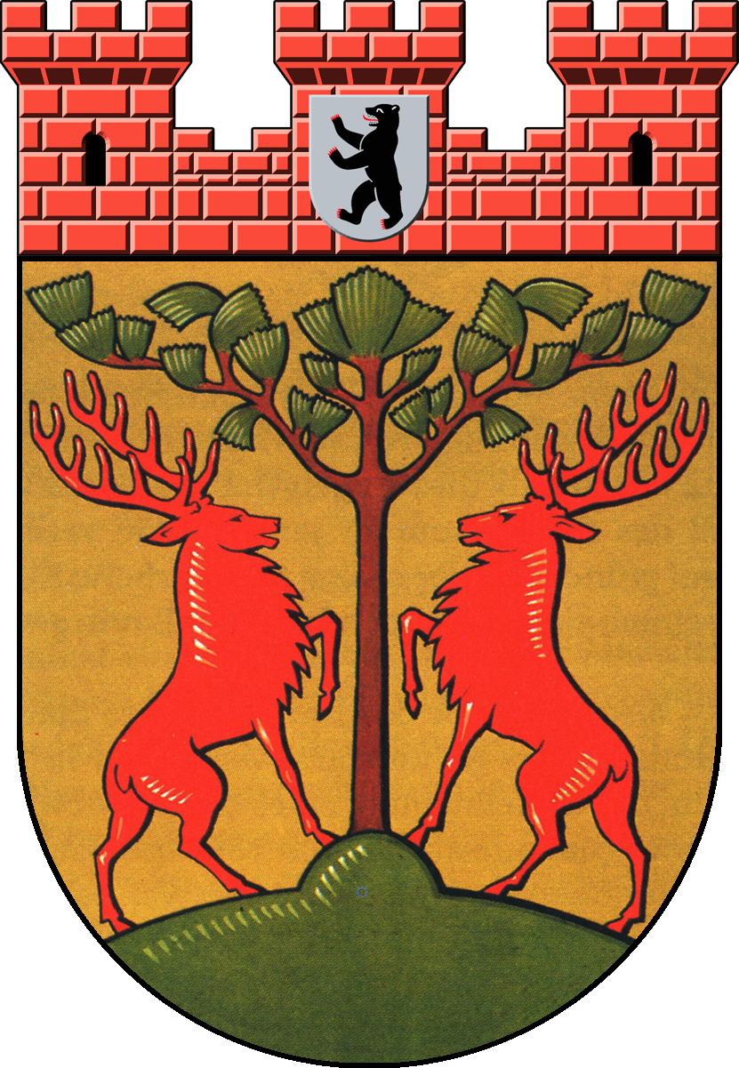 Coat of arms of Schöneberg, a former Boroughs of Berlin.